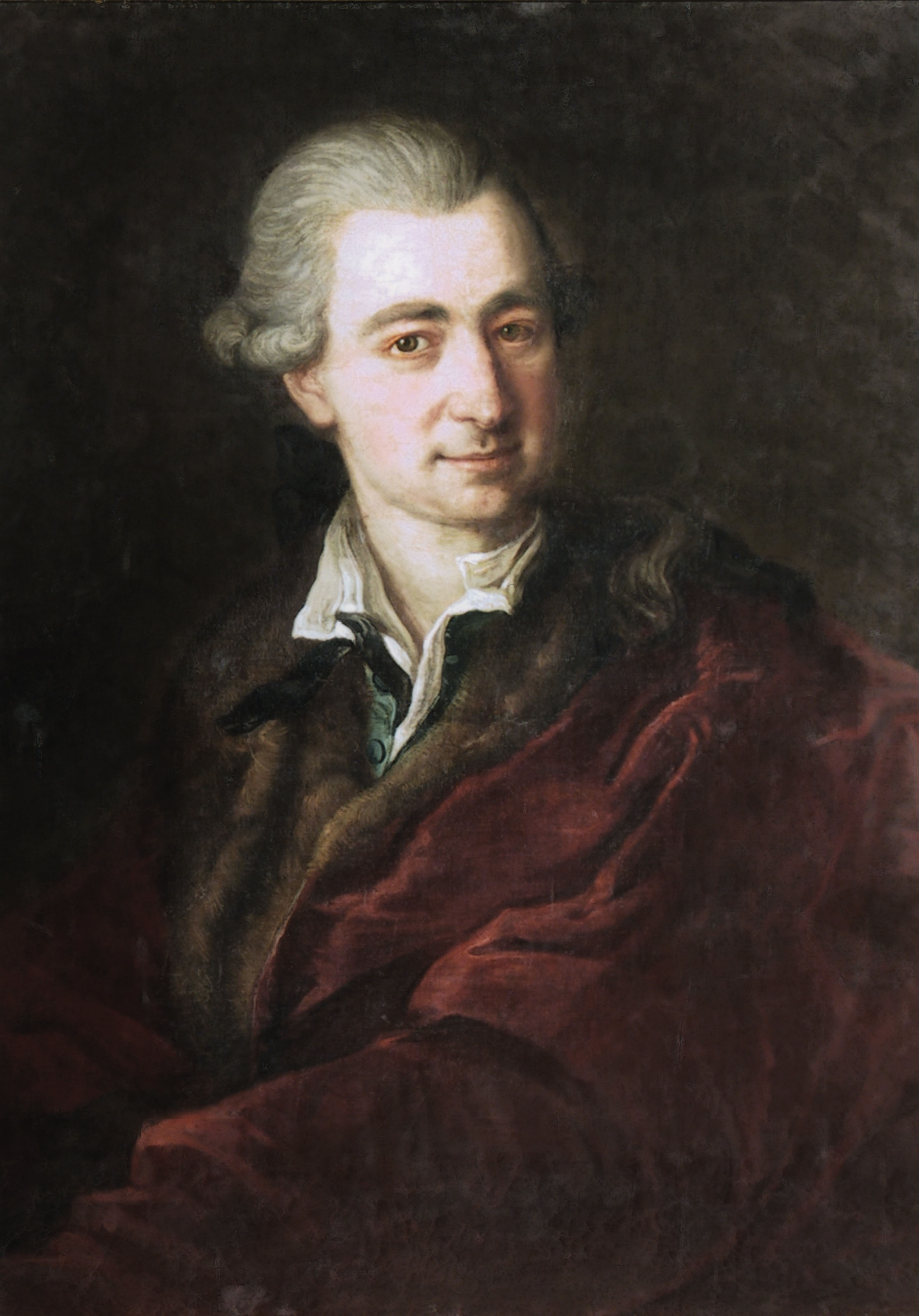 Portrait of Johann Michael Soterius von Sachsenheim the Elder (1742-1794)